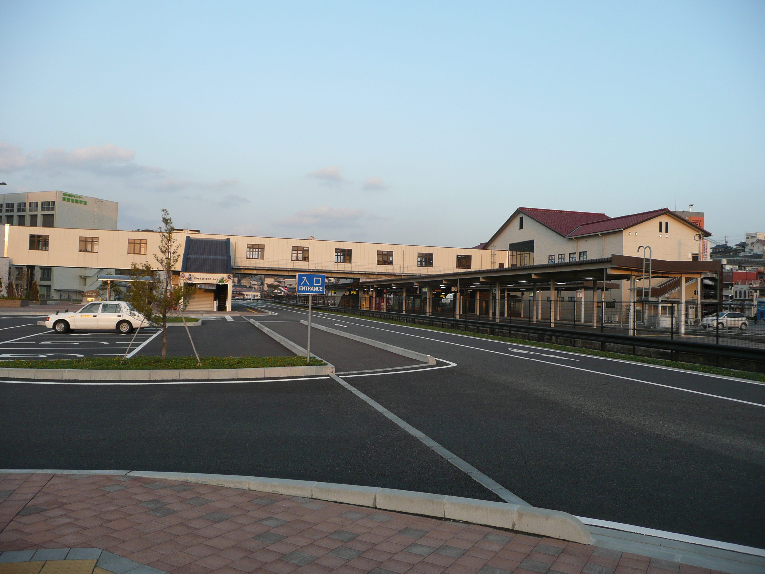 北口広場から望む浜田駅舎